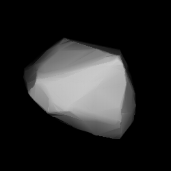 3D convex shape model of 746 Marlu, computed using light curve inversion techniques. J. Hanuš, J. Ďurech, M. Brož, B. D. Warner (June 2011). "A study of asteroid pole-latitude distribution based on an extended set of shape models derived by the lightcurve inversion method". Astronomy and Astrophysics 530: A134. ISSN 0004-6361. arXiv